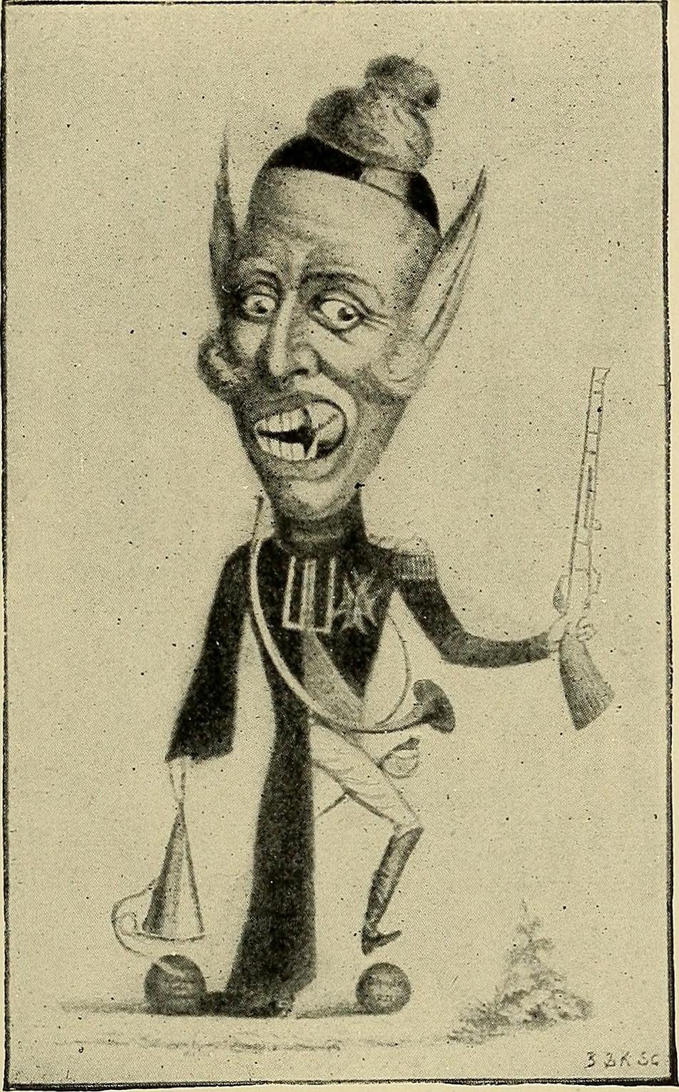 "The Great Nutcracker of July 25th, or the Impotent Horse-jaw". In this caricature Charles X is attempting to break with his teeth a billiard ball on which is written the word "Charter". The cartoon is entitled The Great Nutcracker of July 25th, or the Impotent Horse-jaw (ganache)—a play upon words. His huge, ungainly teeth protrude like the incisors of a horse. He is expending the full crushing power of these teeth upon the "charter" of 1814, but is finding it a nut quite too hard to crack. Title: The history of the nineteenth century in caricature Year: 1904 (1900s) Authors: Maurice, Arthur Bartlett, 1873-1946 Cooper, Frederic Taber, 1864-1937, joint author Subjects: History, Modern Nineteenth century Caricature Publisher: New York : Dodd, Mead